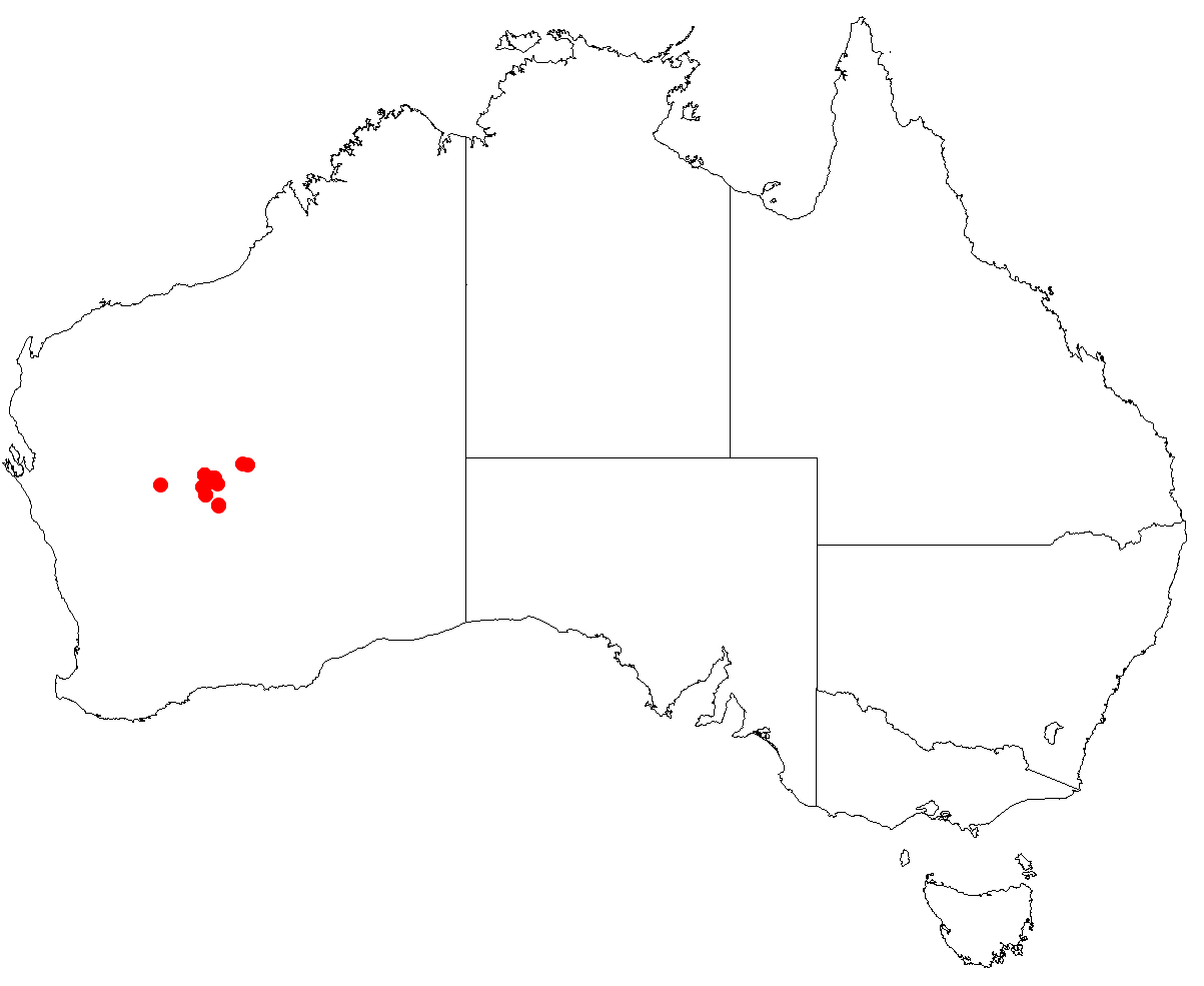 Australian distribution of Amyema micophylla based on download from Australasian Virtual Herbarium May 9, 2018